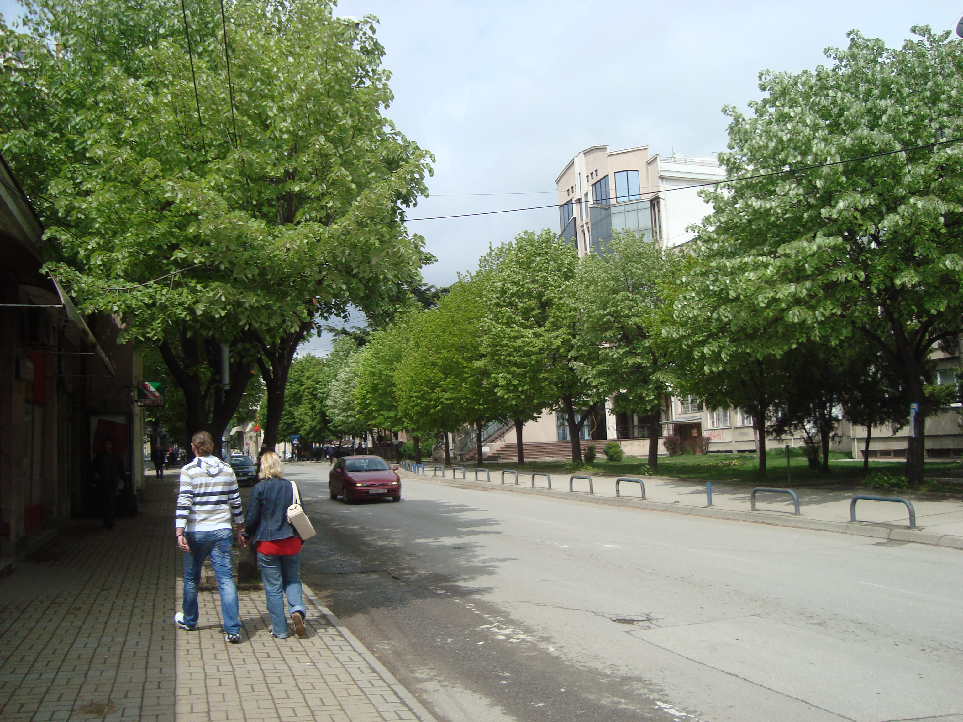 One of the main streets in Kumanovo, Macedonia.